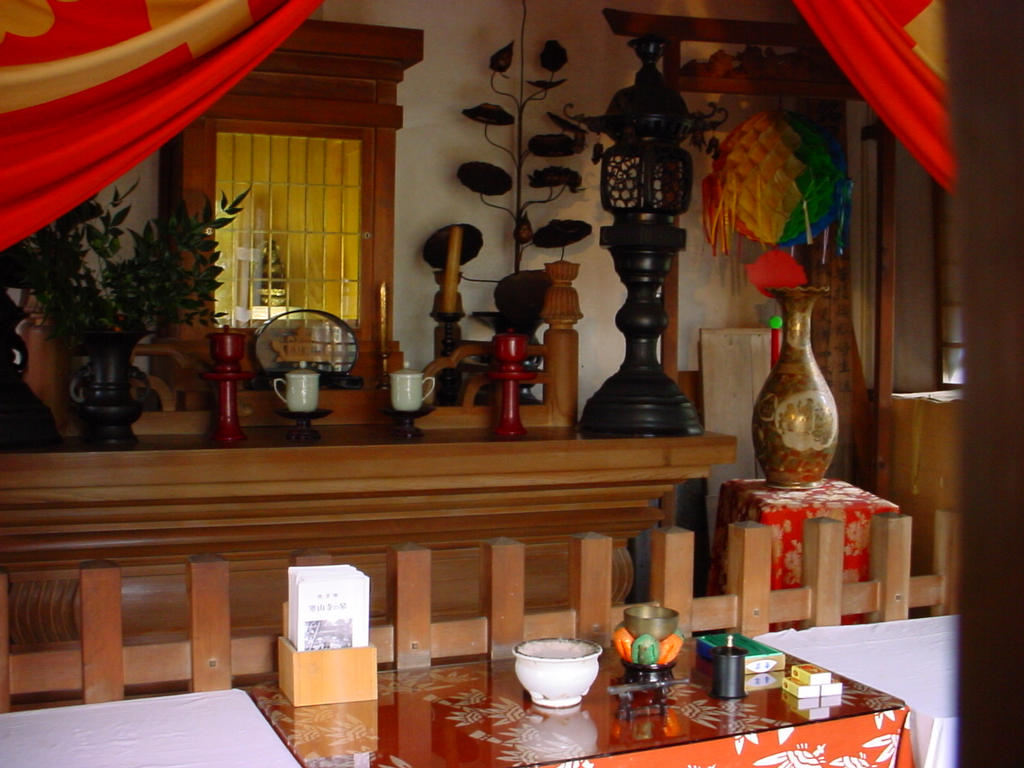 Altar of the Buddhist temple Kanzan-ji in Ome, Tokyo, Japan.